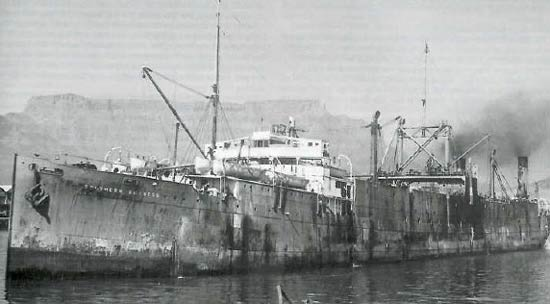 british Whalefactory Southern Empress